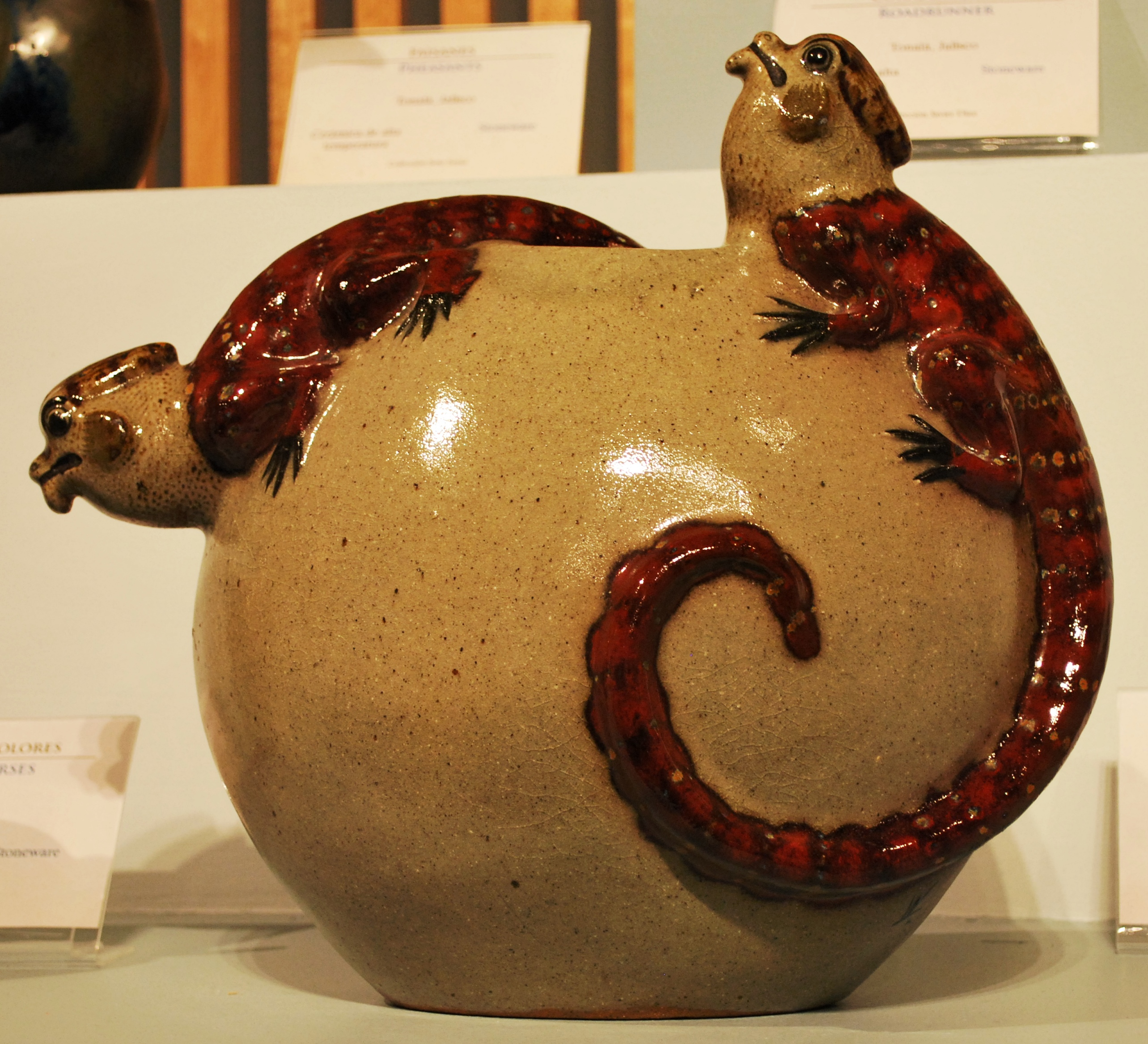 Stoneware vase with iguanas from Jalisco on display at the Museum of Artes Populares in Mexico City